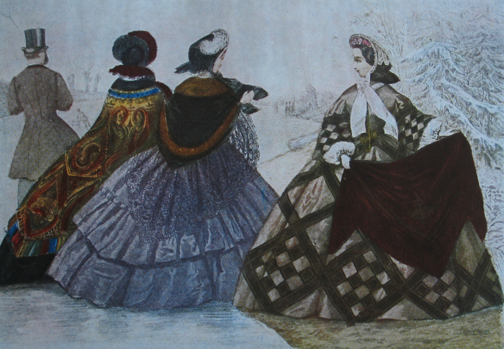 Crinoline fashion